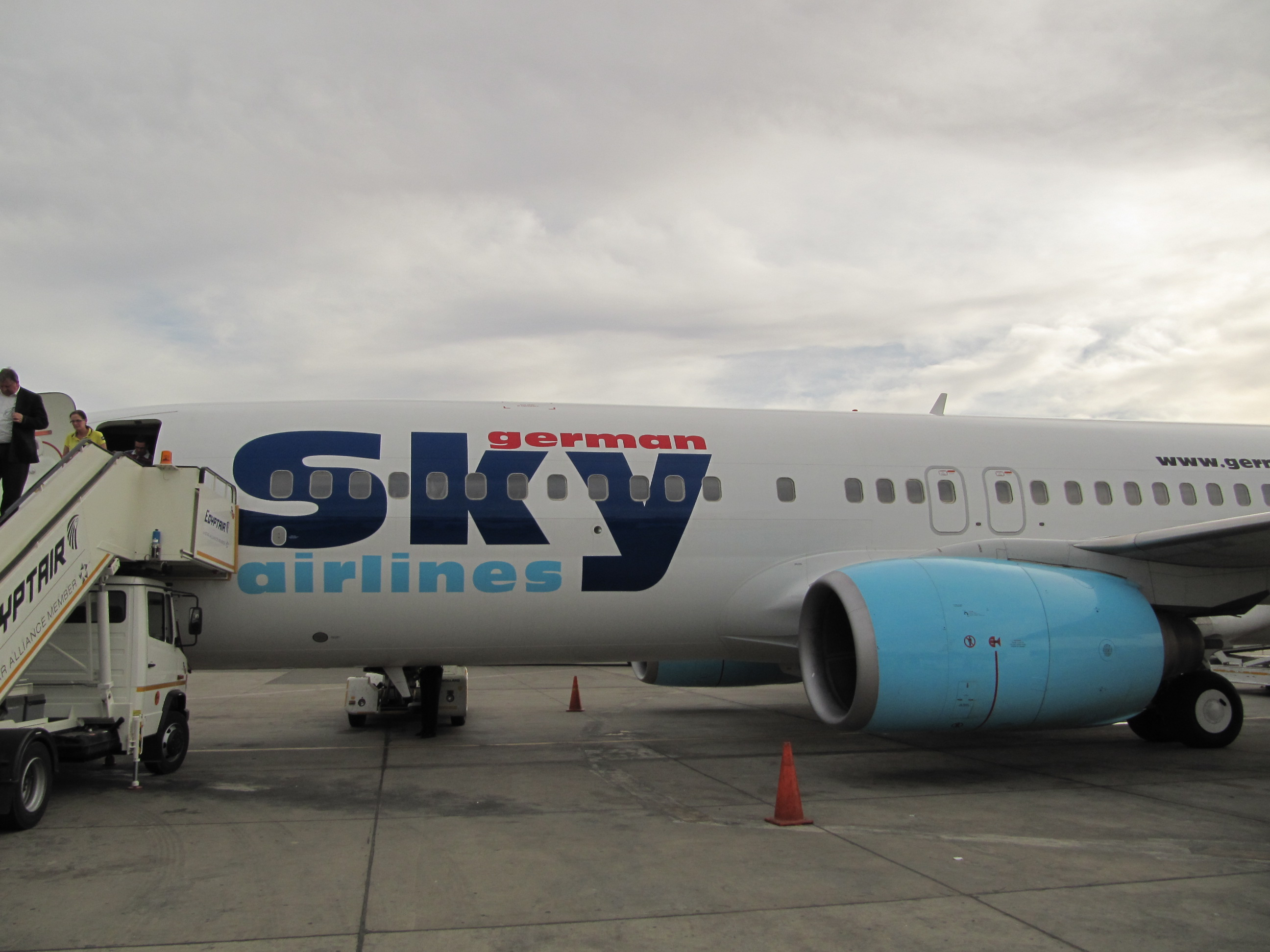 German Sky Airlines